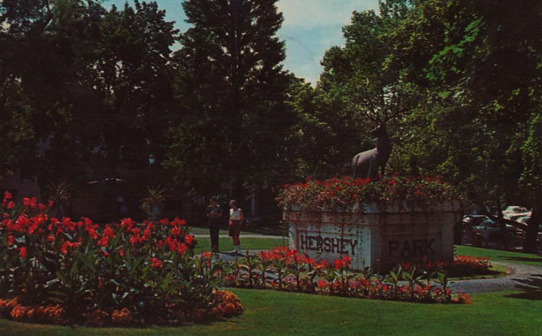 Postcard photo of a Hersheypark entrance in 1961.